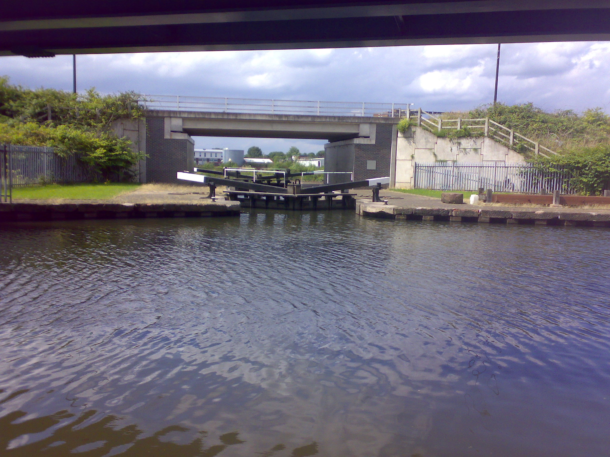 Entrance to Manchester Ship Canal under Throstle's Nest Lane, known as 'Pomona Lock'.